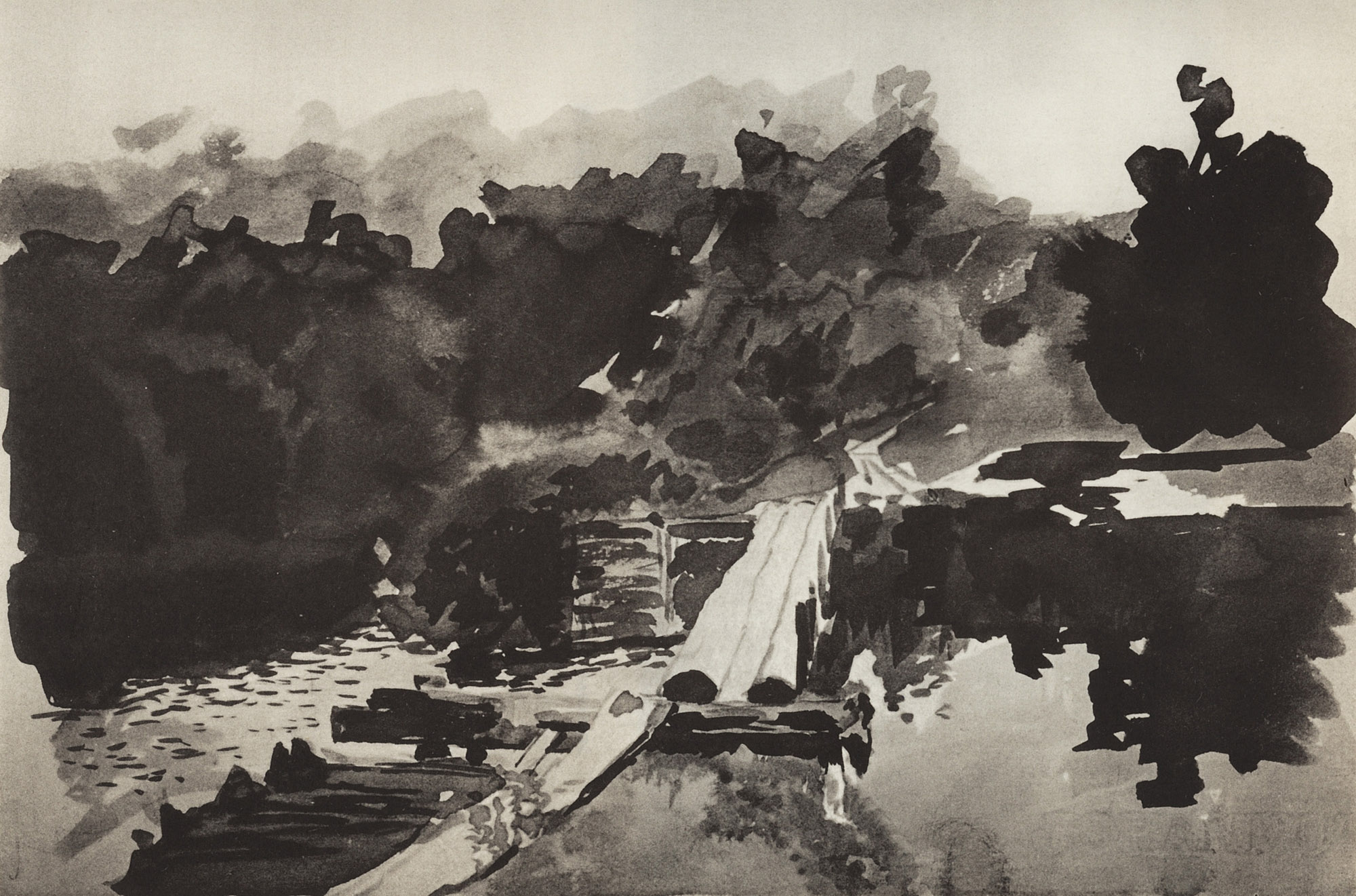 By the pool (study by Isaac Levitan, 1891)